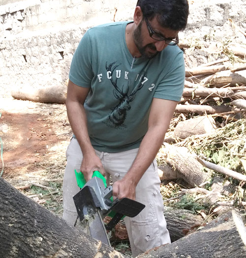 Teja working in a construction site.